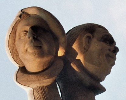 s